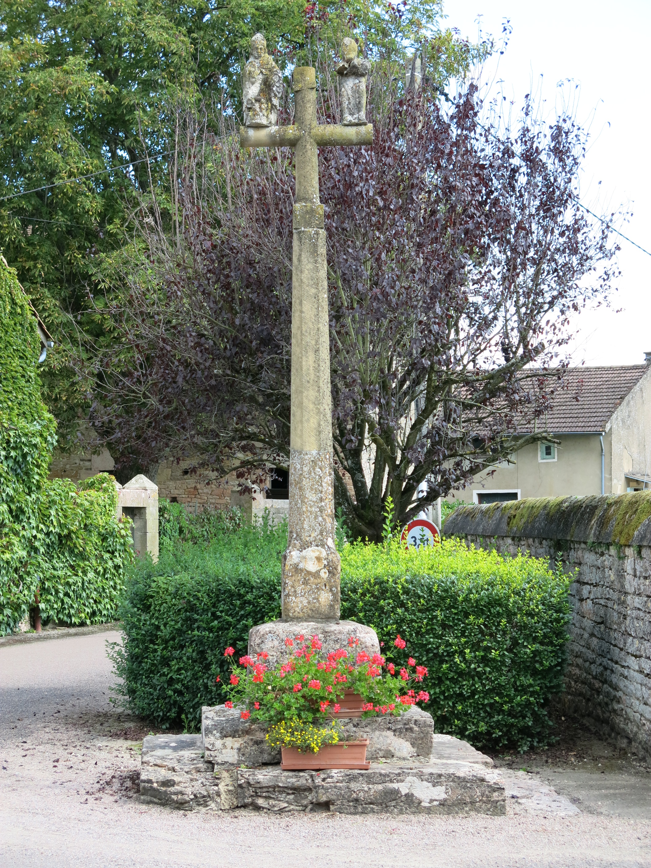 Calvary in la Truchère (Saône-et-Loire, France).